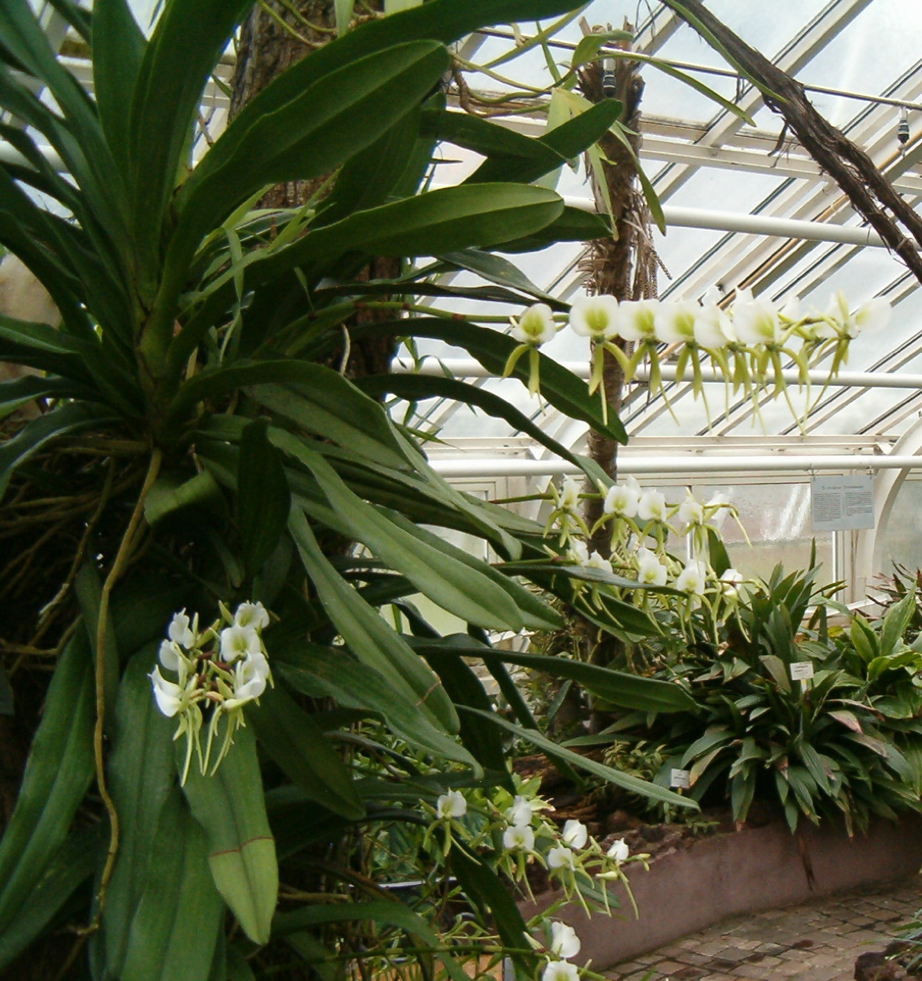 Location: Botanical Gardens Berlin Dahlem